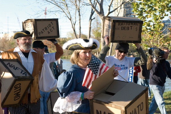 Ron Paul Austin Tea Party (December 16, 2007)